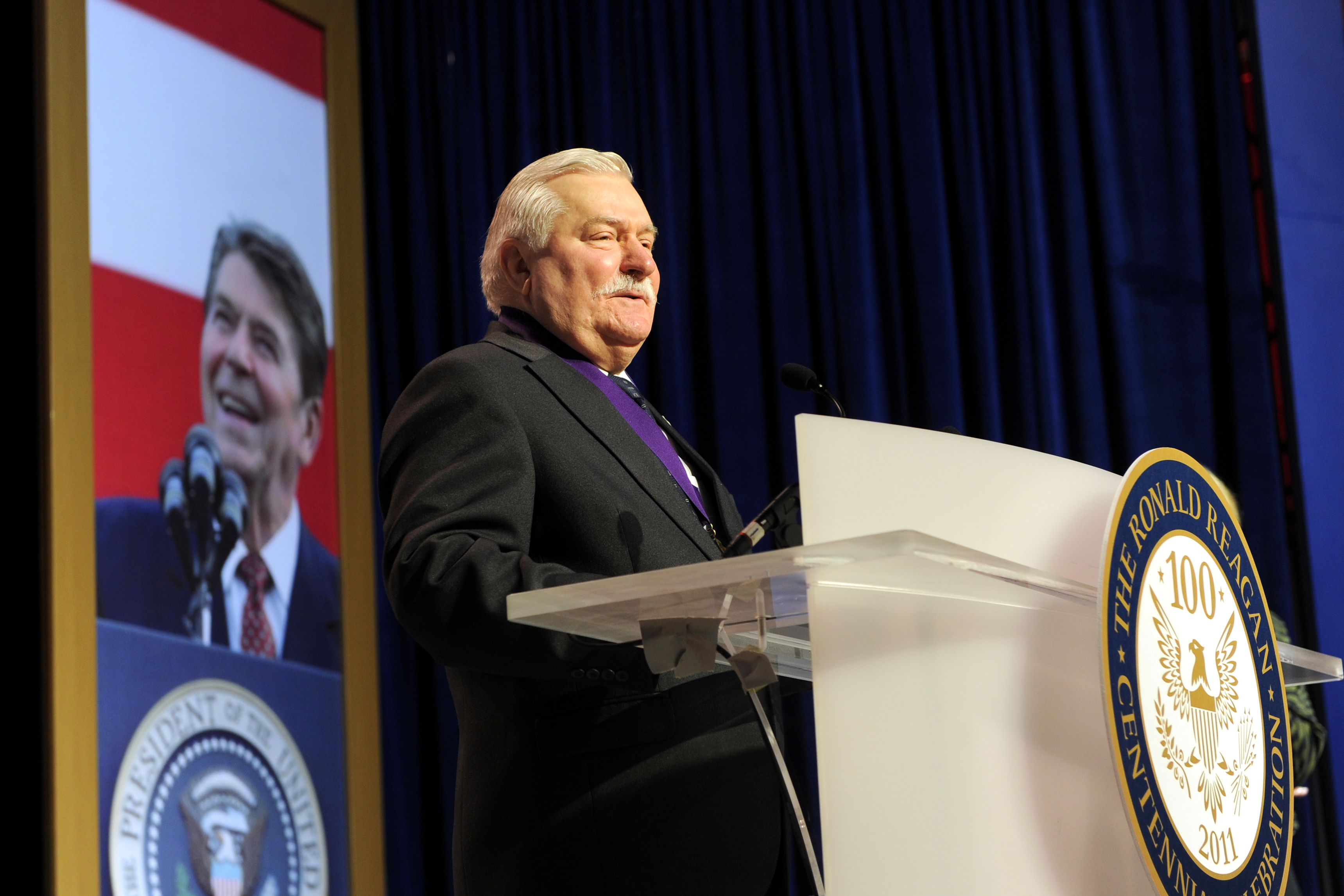 Former Polish President Lech Walesa addresses the audience during the Ronald Reagan Centennial Gala in Washington, D.C., May 24, 2011.